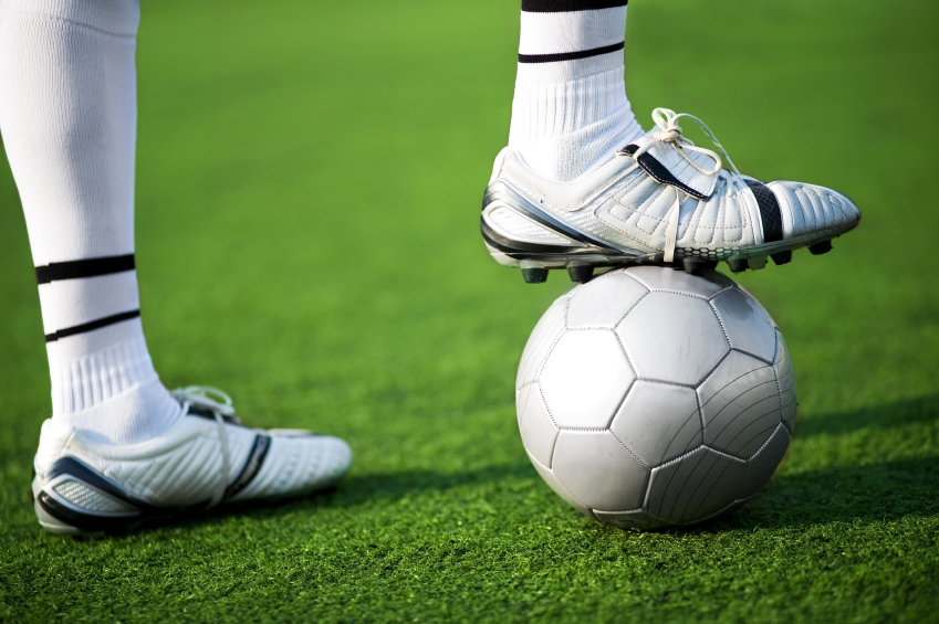 Soccer